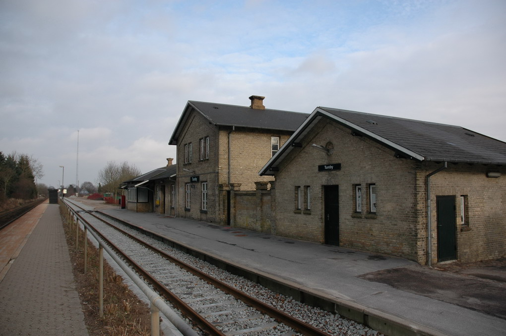 Tureby station, perronside med spor 1